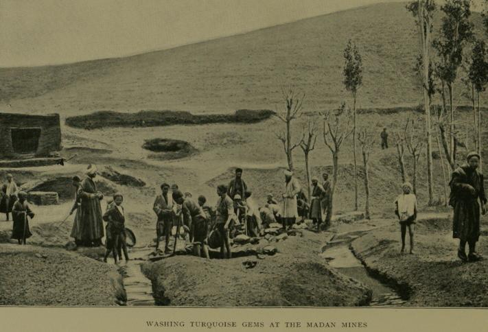 An early turquoise mine in the Madan village of Khorasan. [1] [2] Washing turquoise gems at the Madan mines.